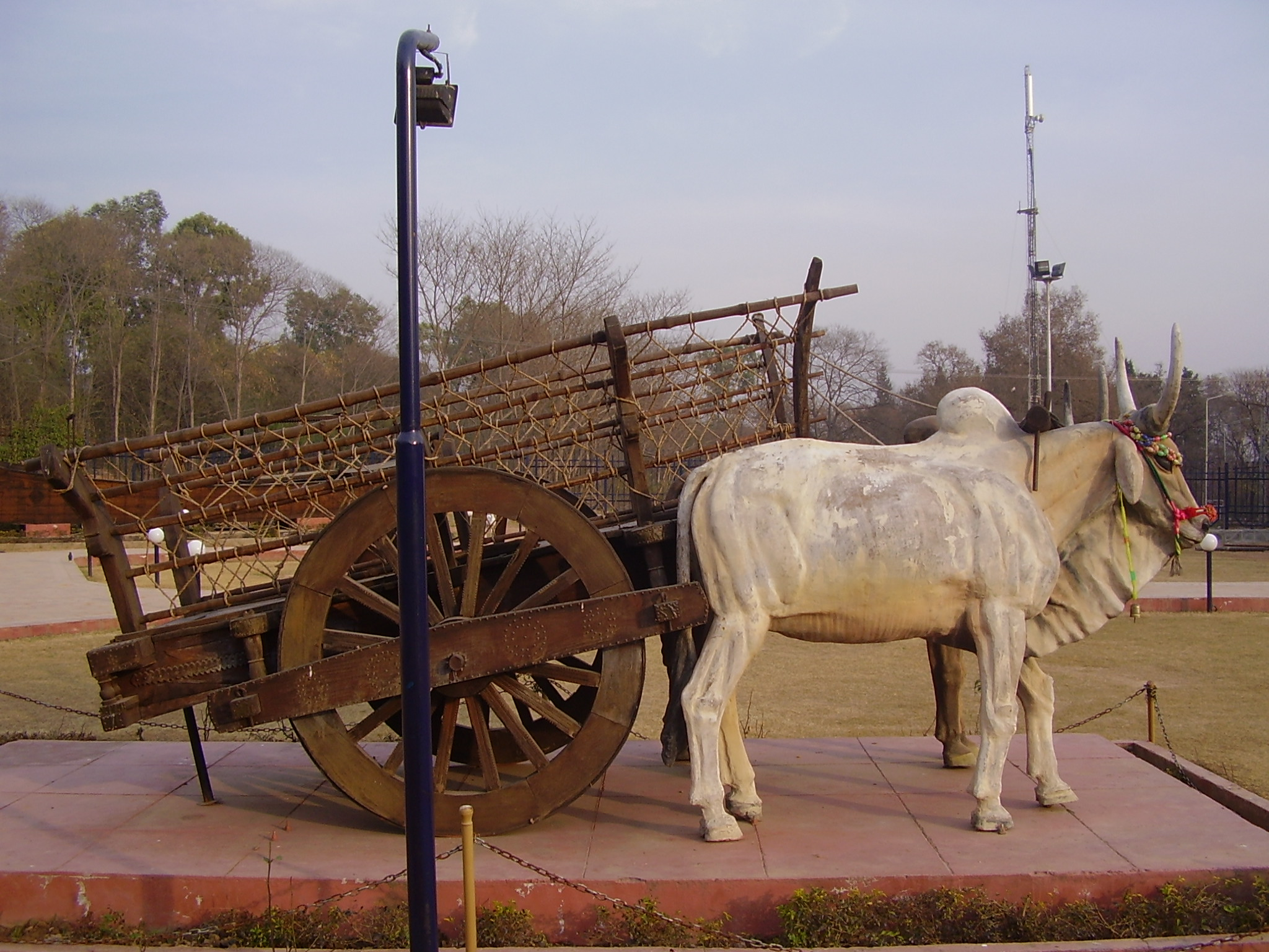 Bull cart from Punjab Pakistan